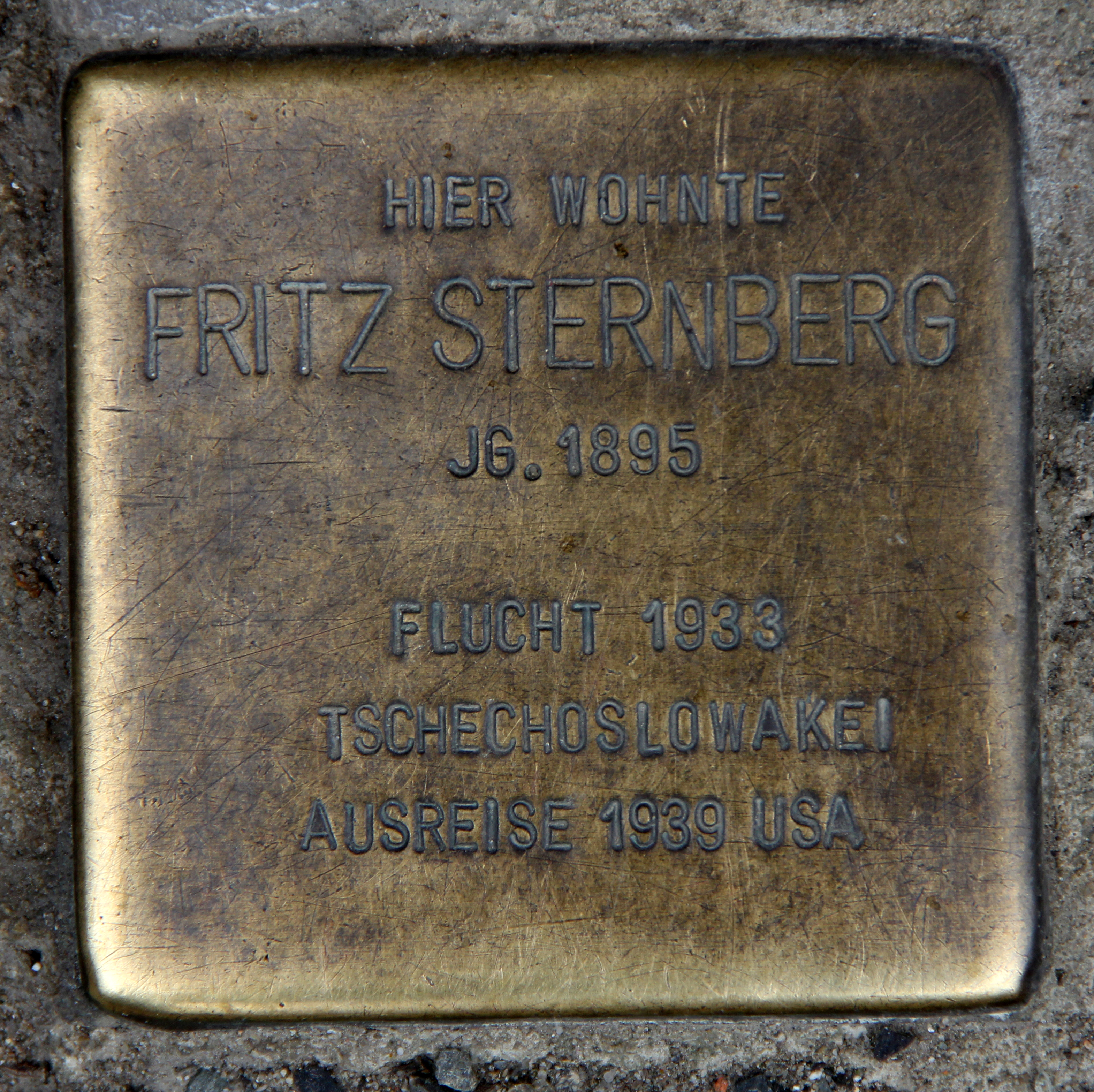 "Stolperstein" (stumbling block), Fritz Sternberg, Zolastraße 1a, Berlin-Mitte, Germany